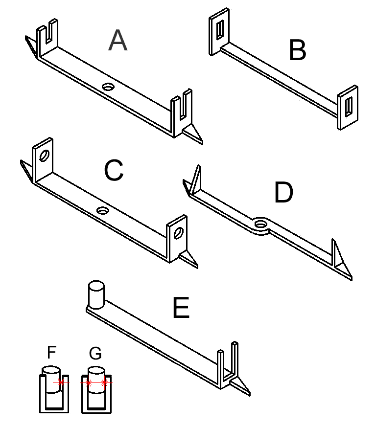 Drawing of several alidade types